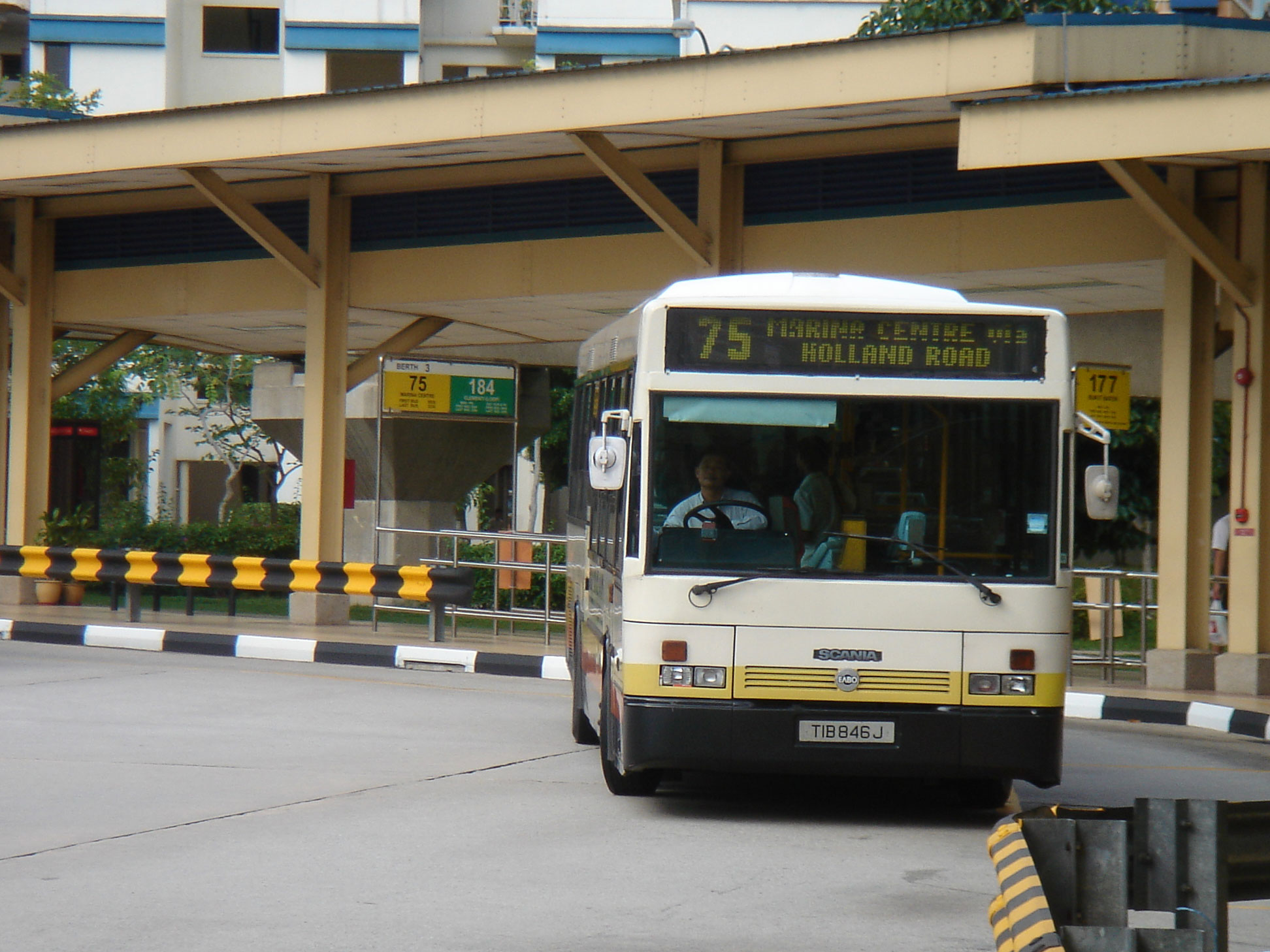 Zero-step ELBO bodied Scania L113 bus (SBS846J, built 1996) in Singapore, SMRT Buses.